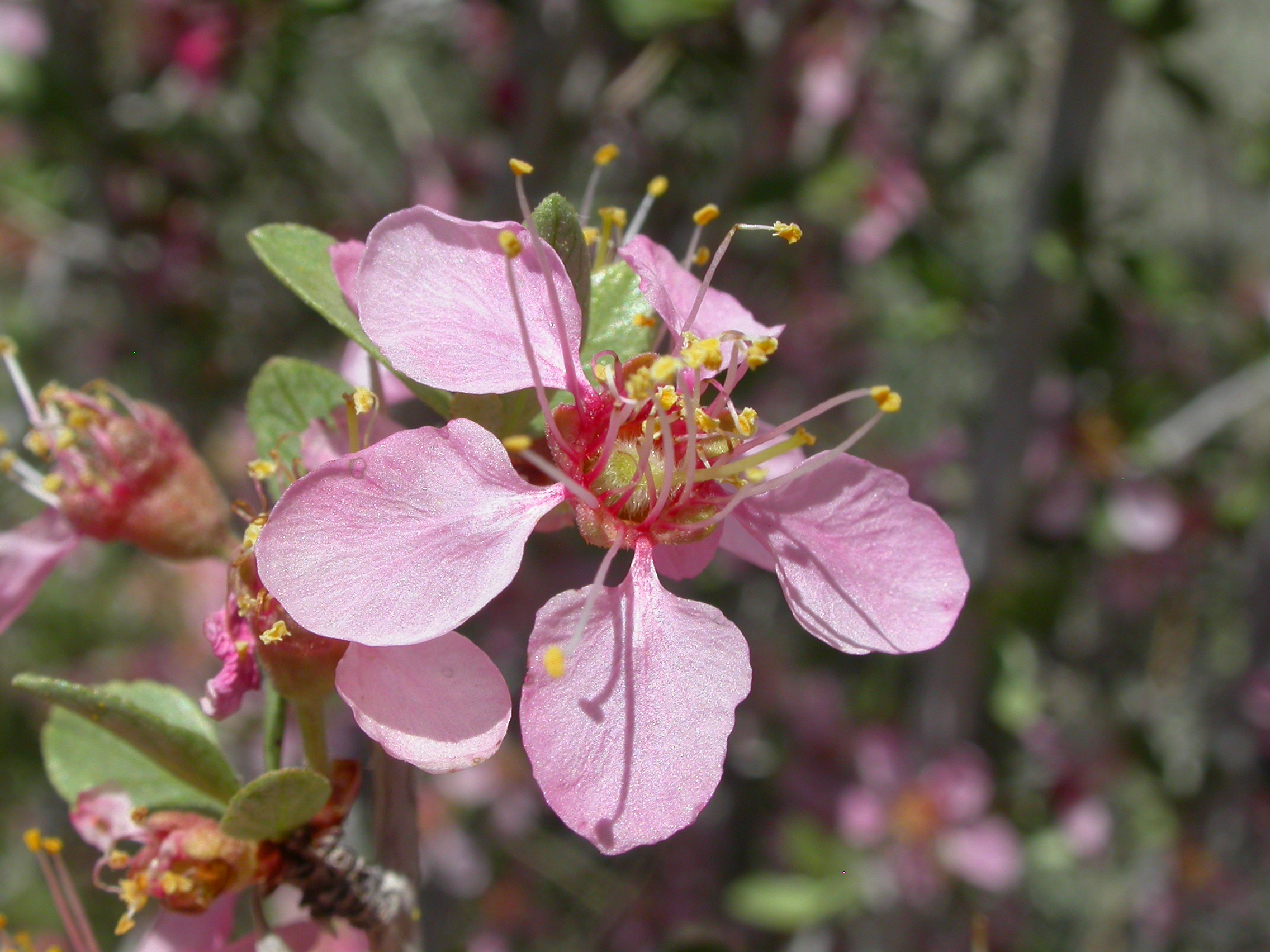 Flower color derives from petals, stamens, and even the hypanthium, and varies from light to dark pink.